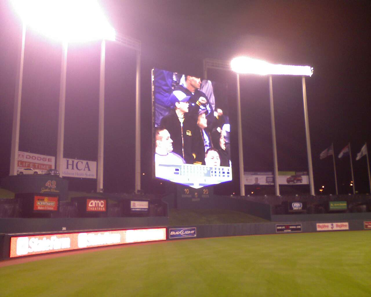 The new video board at Kauffman Stadium in Kansas City, Missouri.